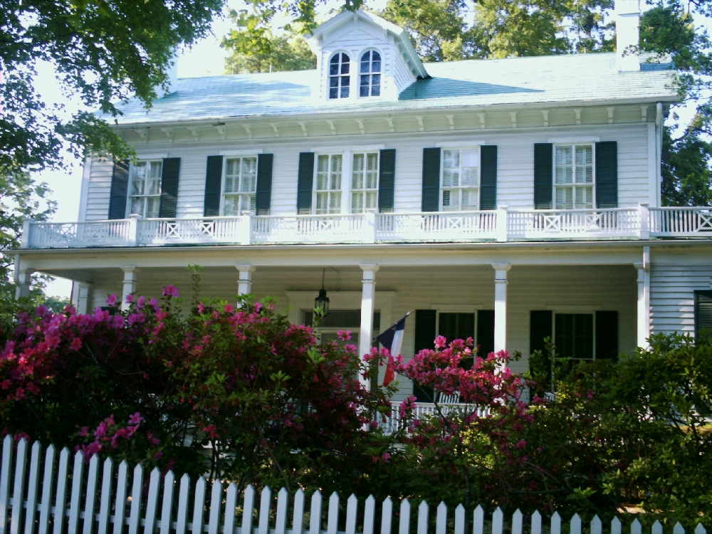 This is Maplecroft the main house in the Starr Family State Historic Site in Marshall, Texas.